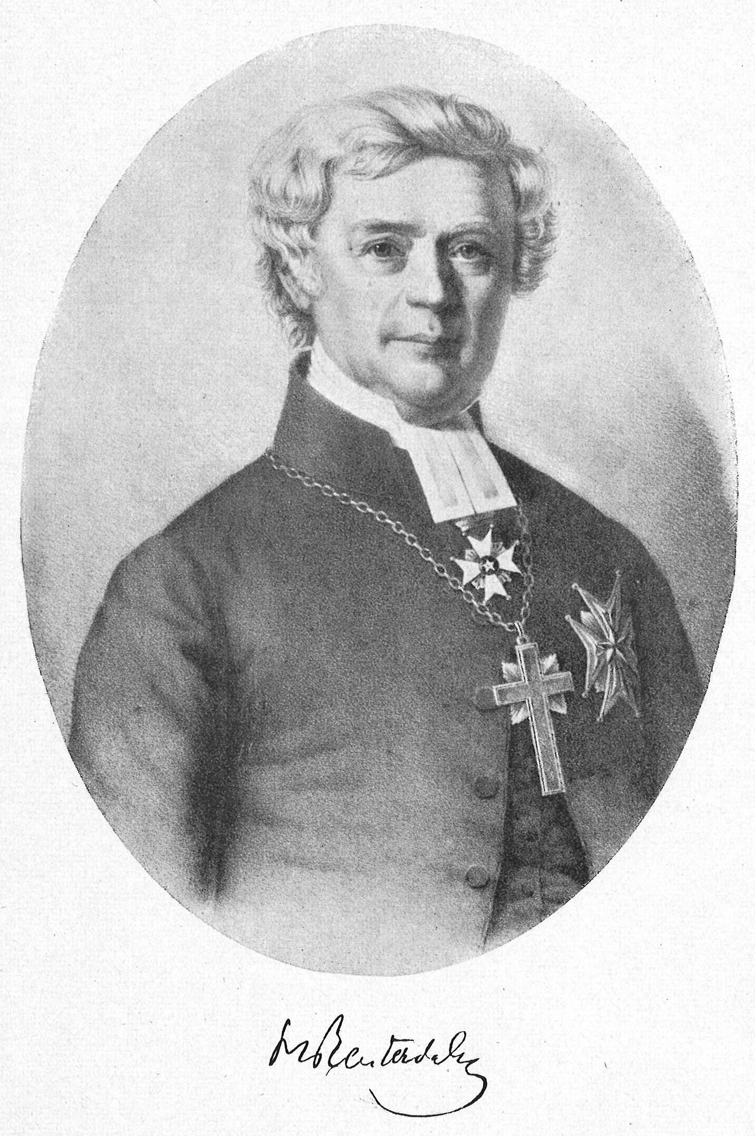 Henrik Reuterdahl (1795-1870), Swedish clergyman, academic and politician. Professor at Lund University 1840-55, minister of education 1852-55, bishop of Lund 1855-56, archbishop of Sweden 1856-1870.